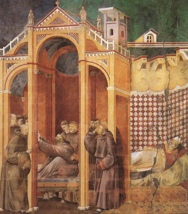 Legend of St Francis